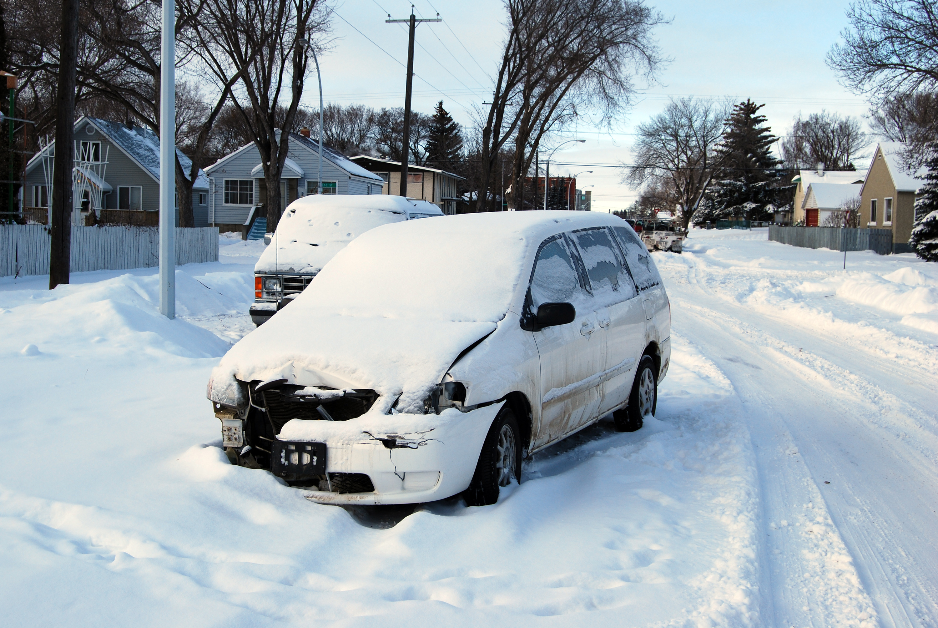 Abandon vehicle after joyride in winter. Edmonton, Alberta, Canada